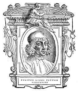 Illustratio from "Le Vite" by Giorgio Vasari, edition of 1568. For the artist portrayed see filename